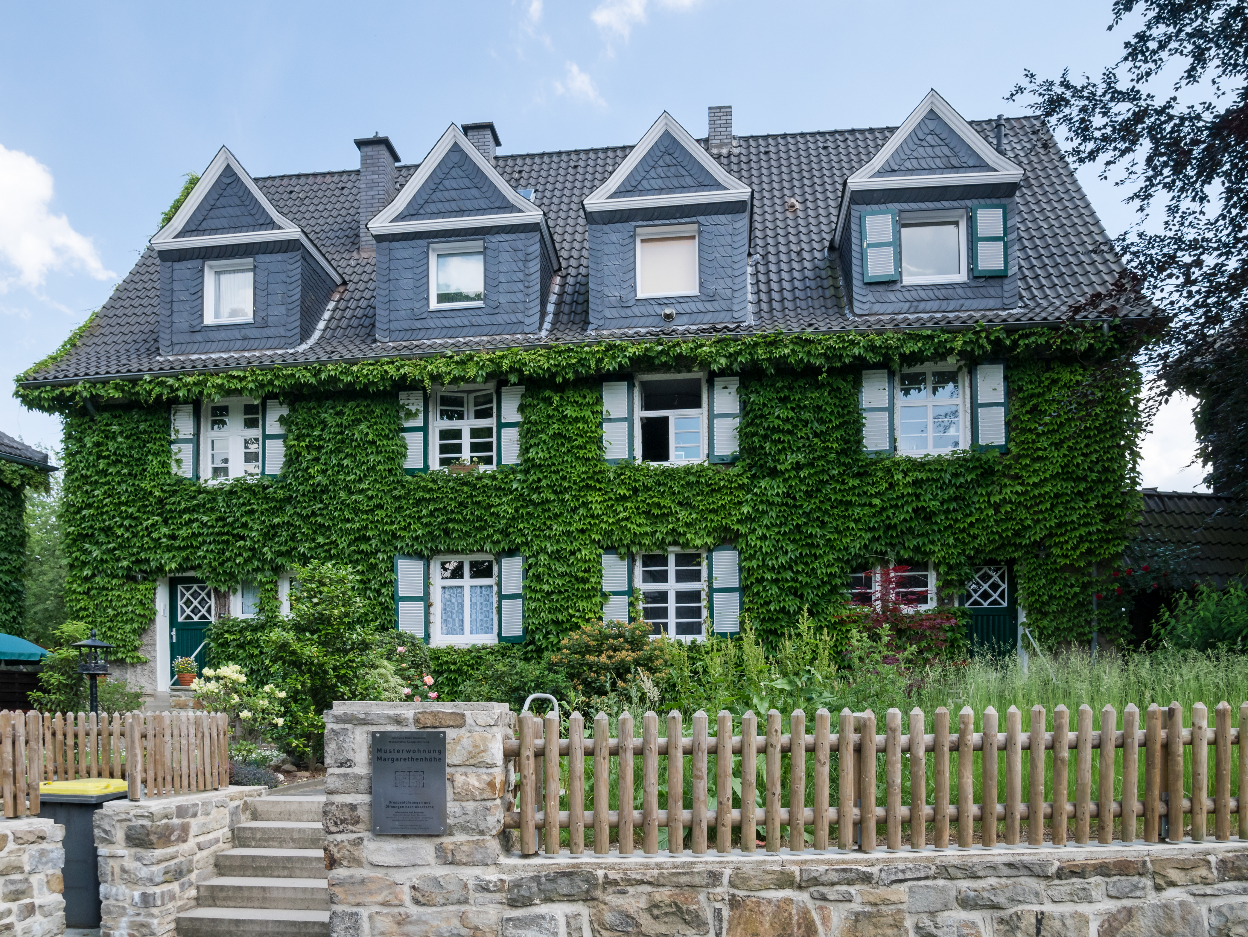 Building in the Margarethenhöhe quarter in Essen. Sample home at Stensstrasse. NRW, Germany